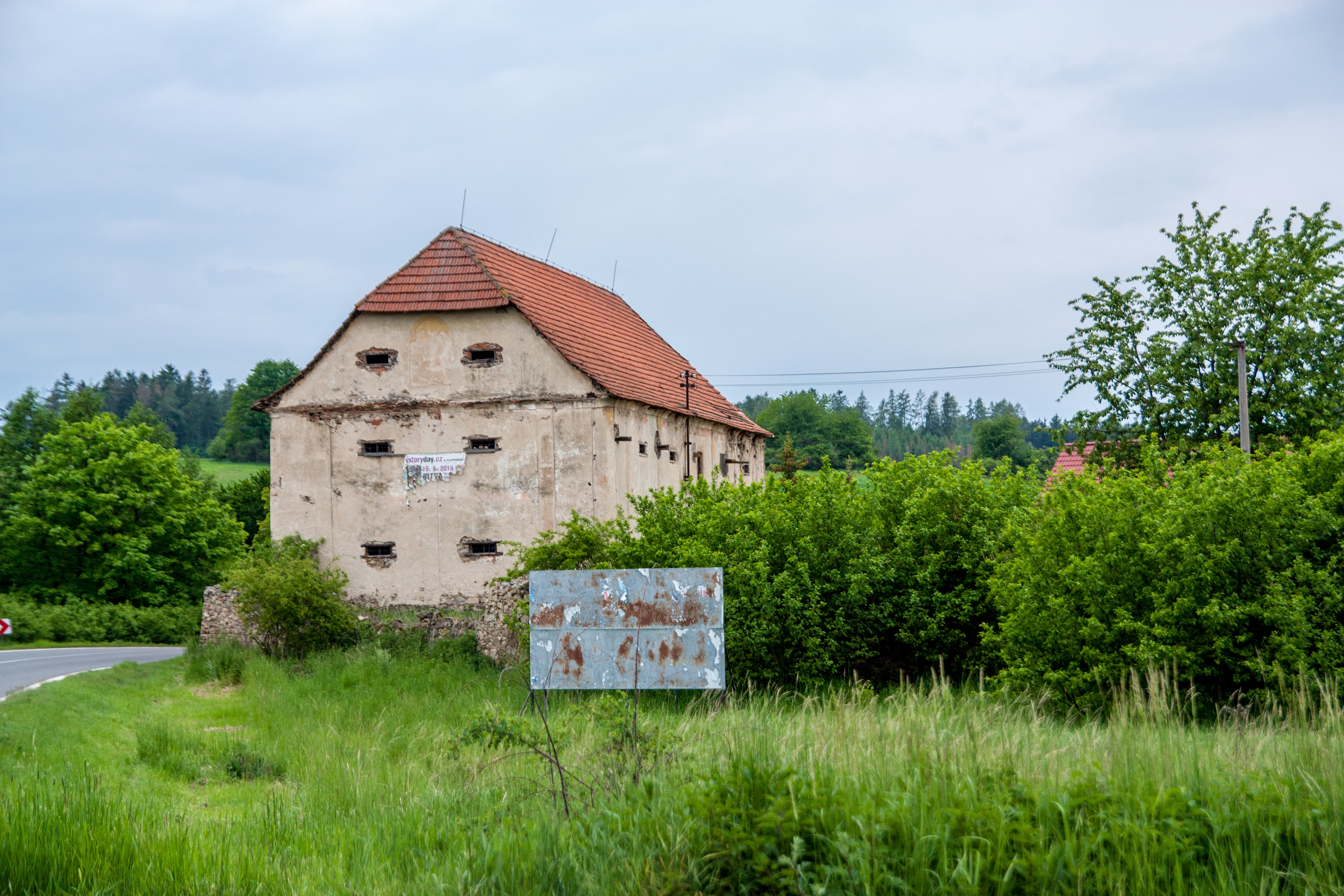 Homestead in village Voračice, Benešov District, Central Bohemian Region, Czechia